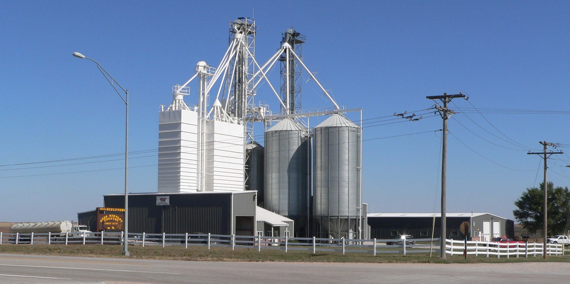 Bartlett Foods feed mill, located on U.S. Highway 281/Nebraska Highway 70 at eastern edge of Bartlett, Nebraska.